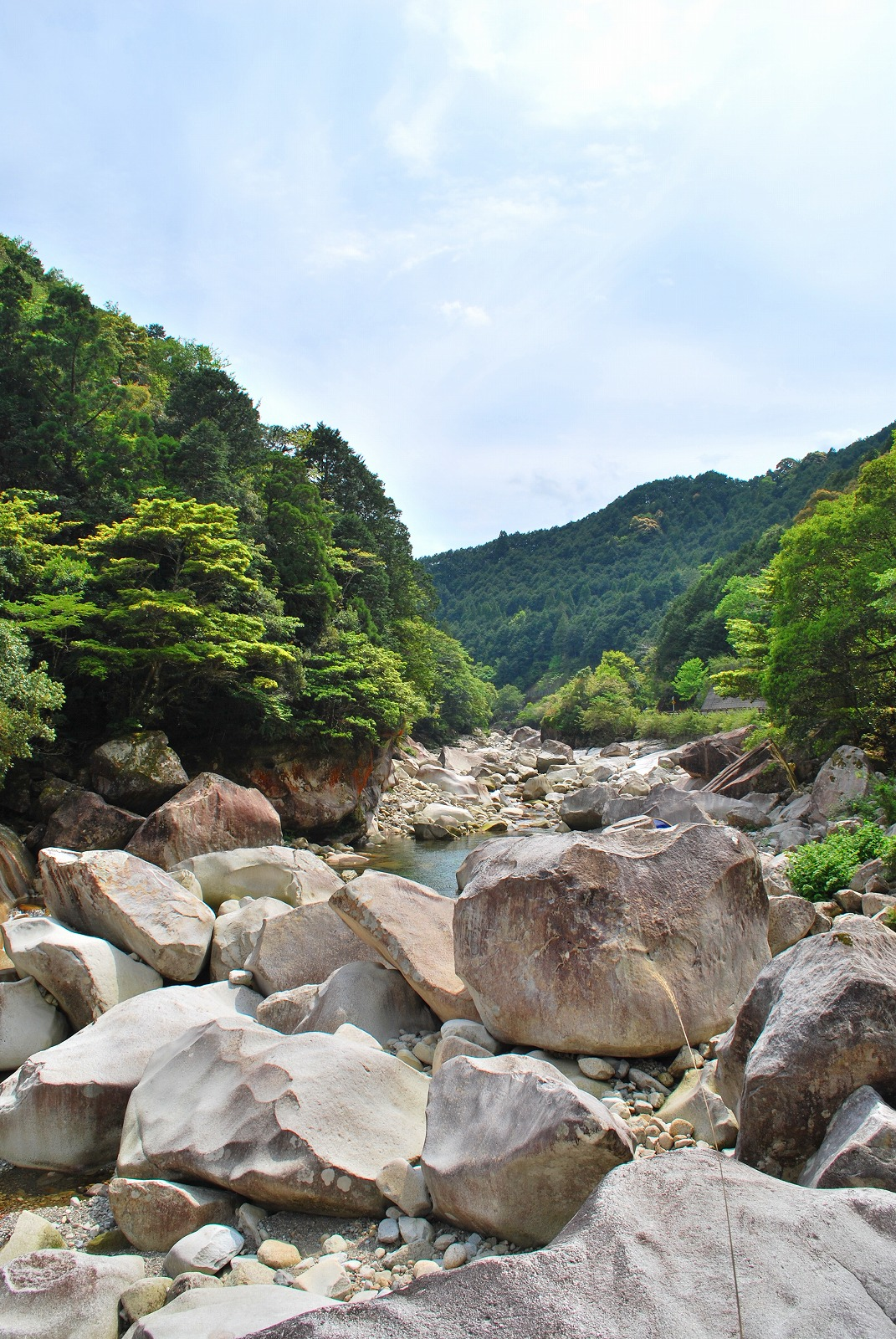 Uotobi valley